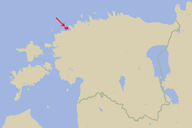 Pakri islands on the map of Estonia.